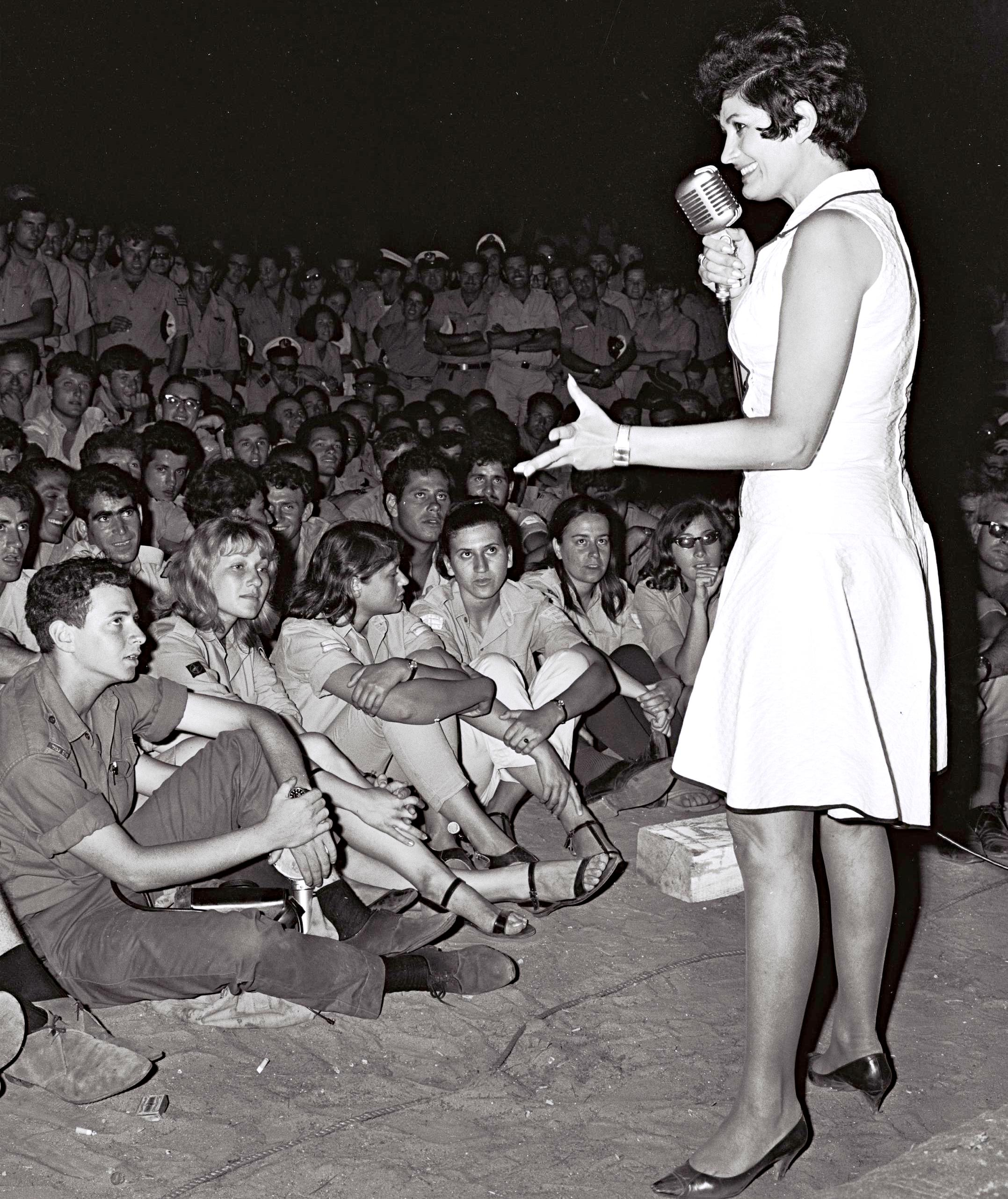 Yaffa Yarkoni entertaining troops in one of their camps.